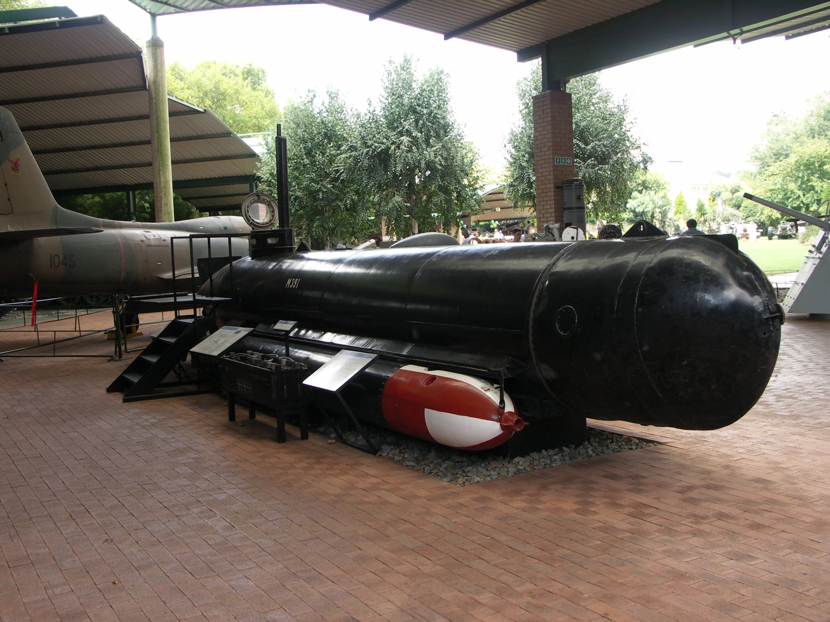 German Molch Midget submarine. South African Military Museum, Johannesburg